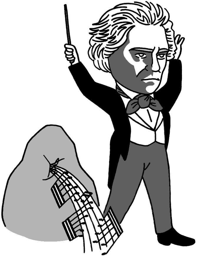 Caricature of Ludwig van Beethoven standing, as Moses, conductor's baton raised near a rock pouring a flood of notes